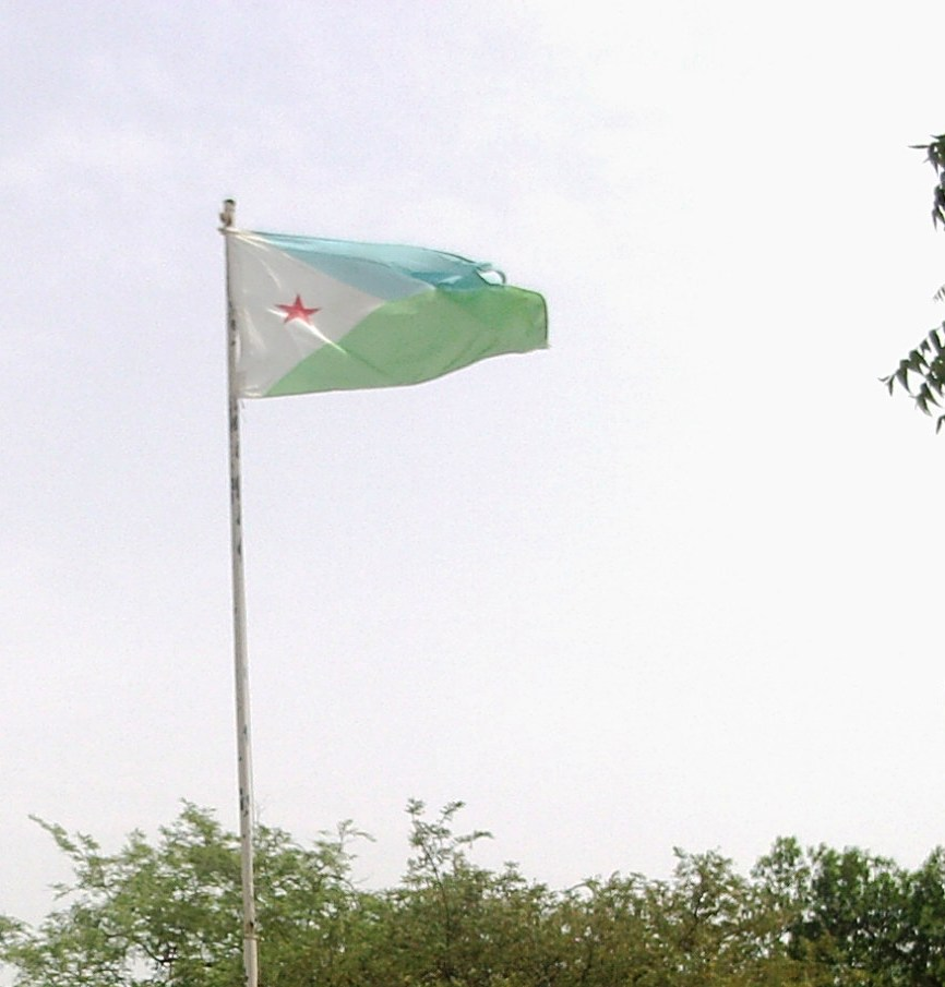 Flag flying in rural Djibouti.